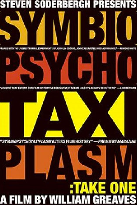 2005 poster for the theatrical release of the 1968 experimental film Symbiopsychotaxiplasm: Take One. The belated distribution of the film, decades after its production, was an effort by director William Greaves with the help of Steven Soderbergh and Steve Buscemi.